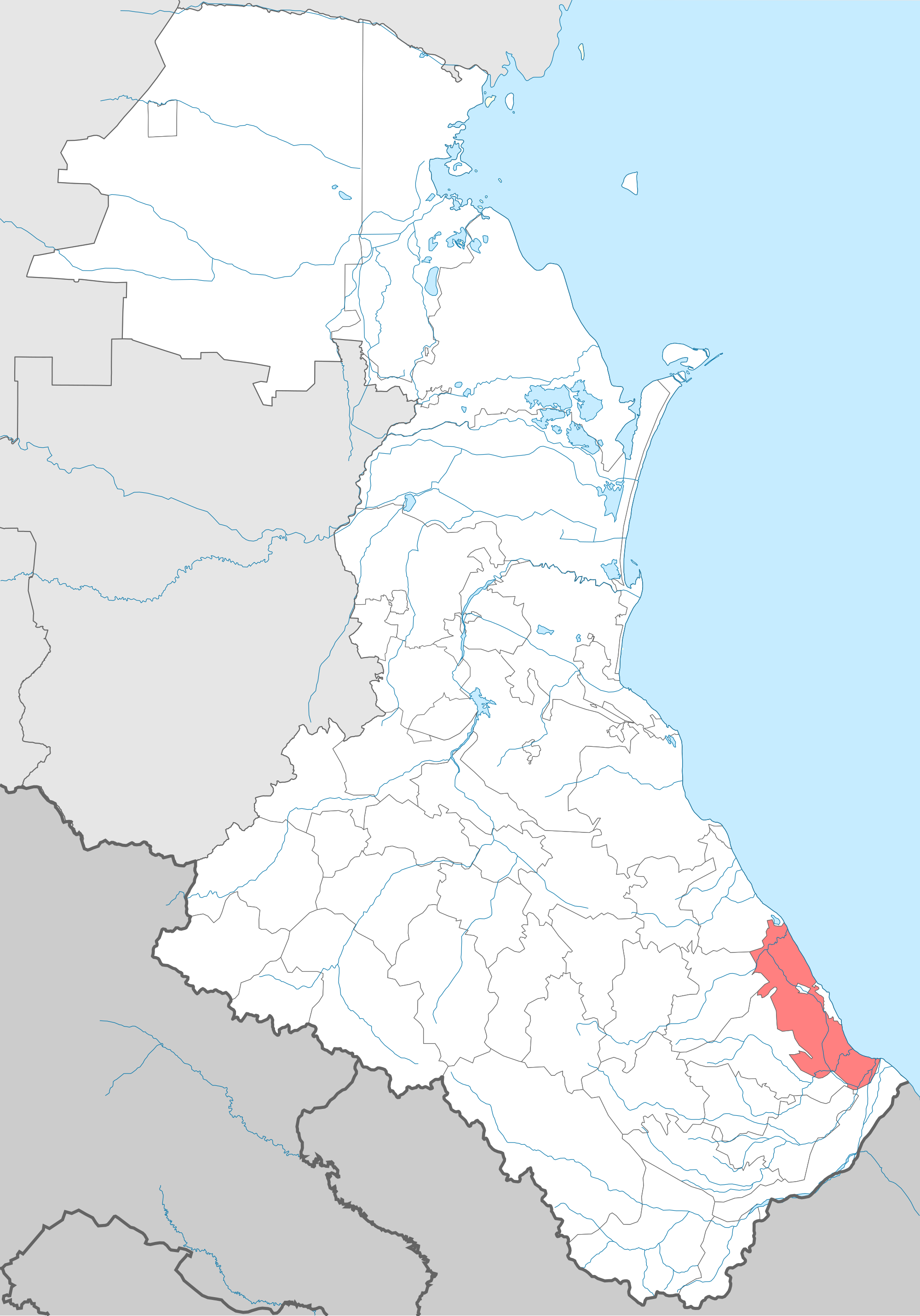 Locator map of the Derbentsky District — in the Republic of Dagestan of southwestern Russia.